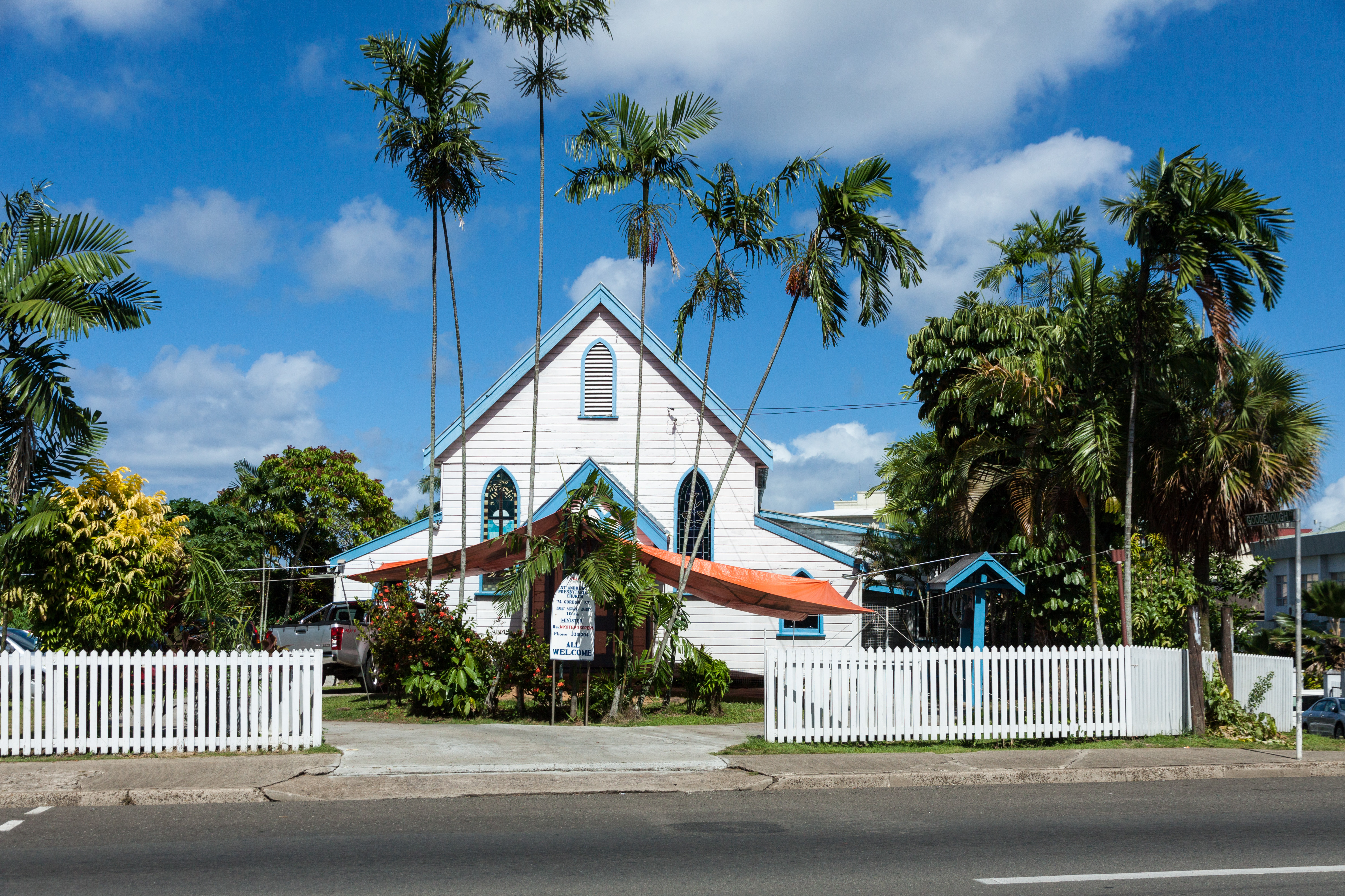 St. Andrews Church (Suva)